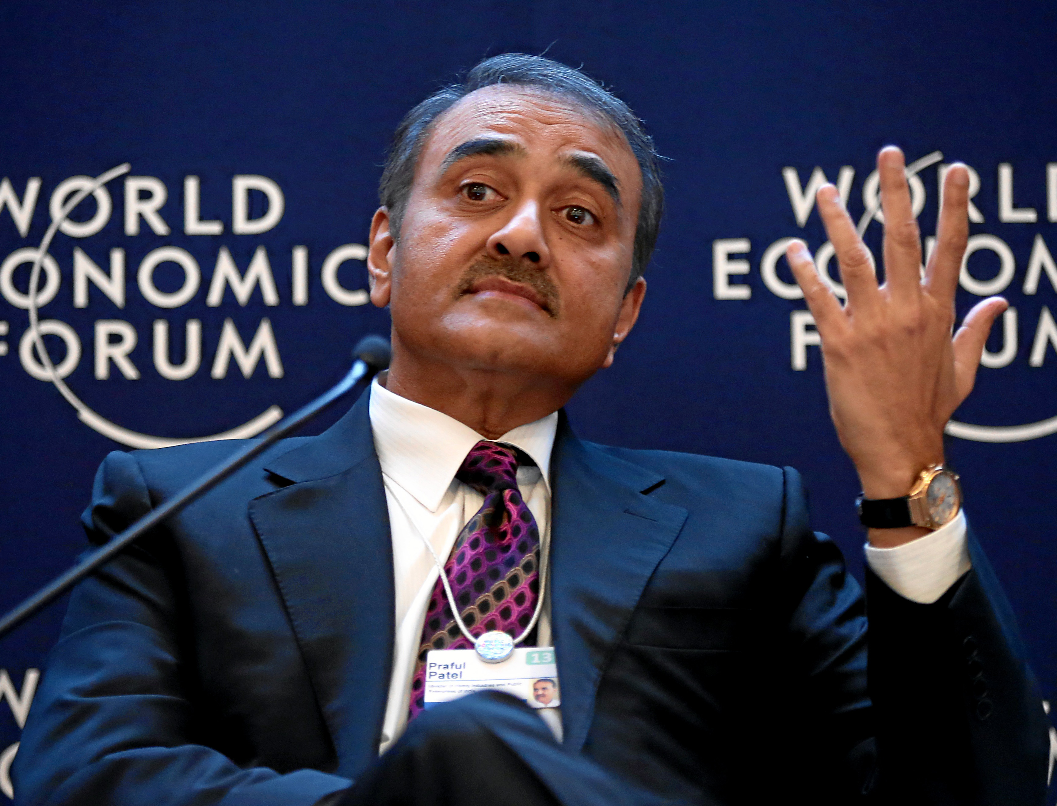 DAVOS/SWITZERLAND, 25JAN13 - Praful Patel, Minister of Heavy Industries and Public Enterprises of India gestures during the session 'Forum Debate: Religion and Politics' at the Annual Meeting 2013 of the World Economic Forum in Davos, Switzerland, January 25, 2013. . . Copyright by World Economic Forum. . Mirko Ries